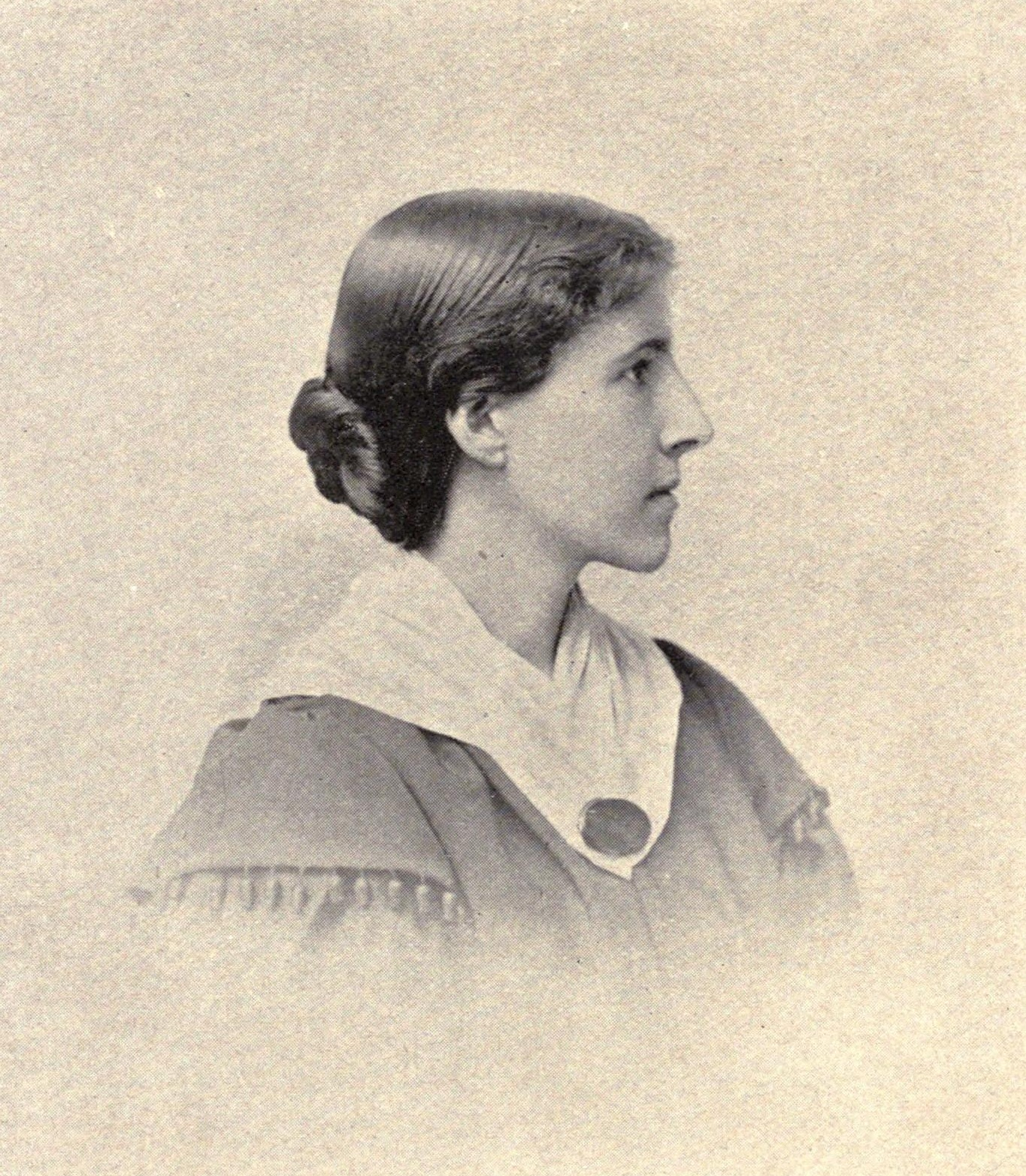 Charlotte Perkins Gilman